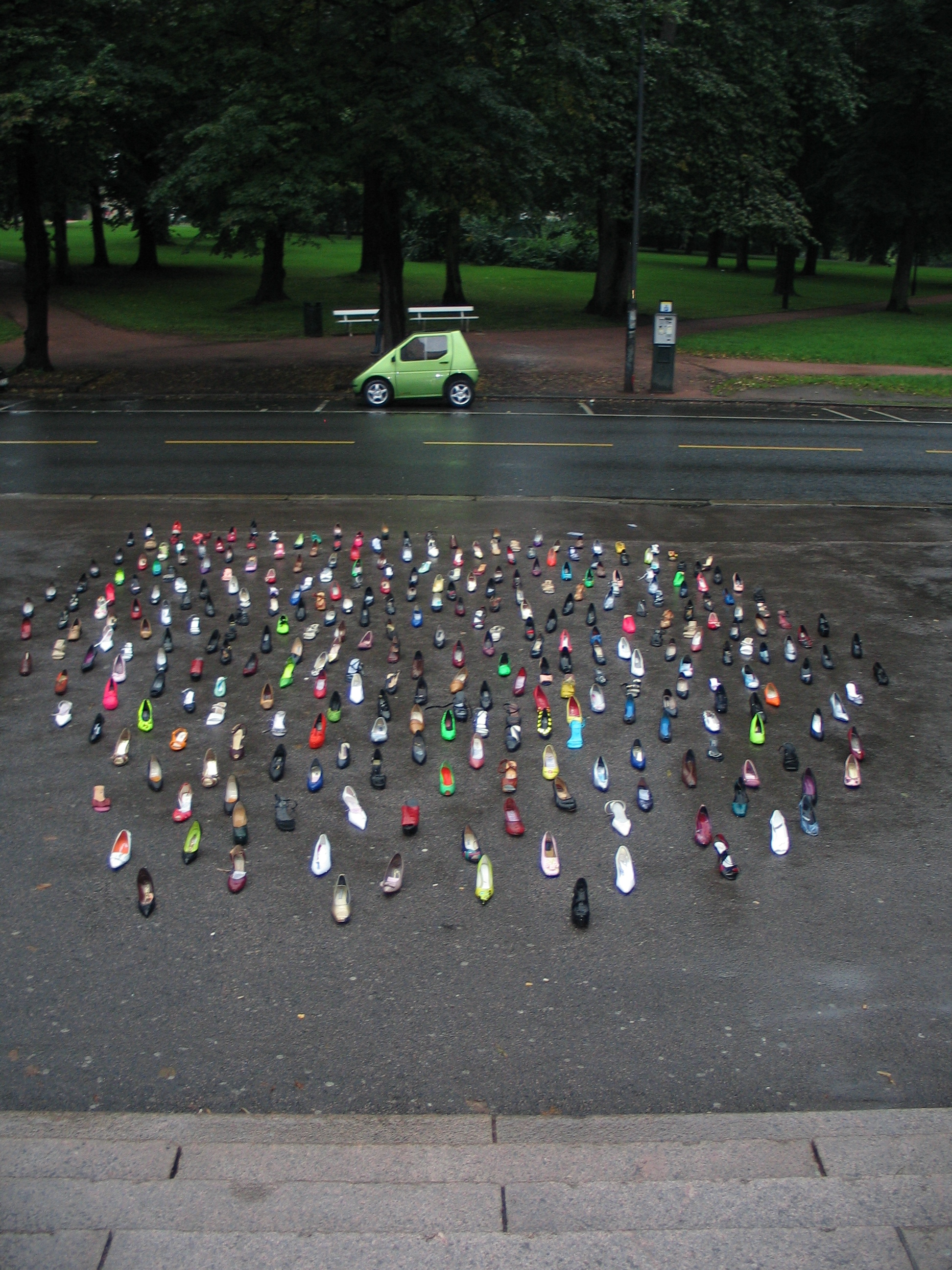 Readymade